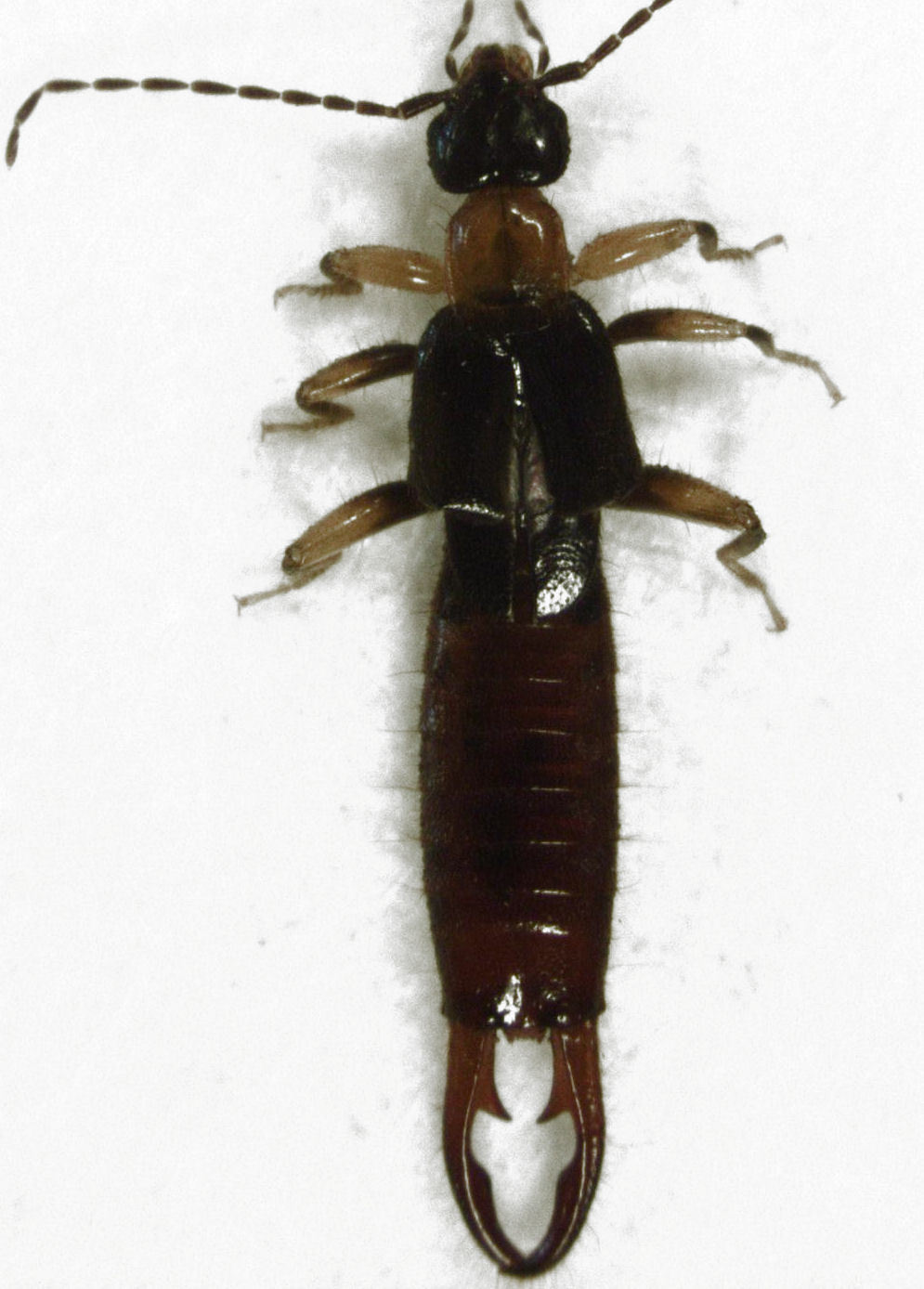 Paraspania brunneri (Bormans, 1883). Male.